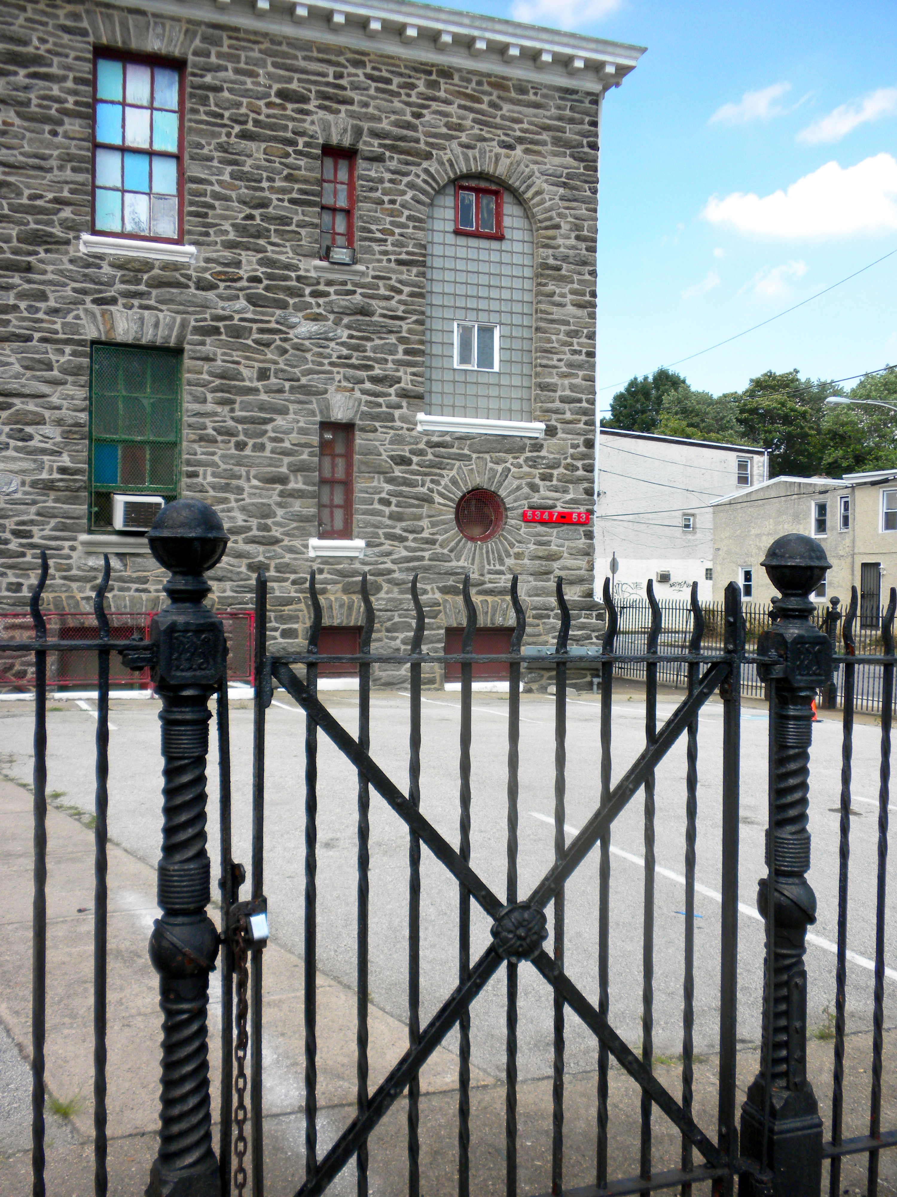 Thomas Meehan School on NRHP since November 18, 1988. At 5347 Pulaski Street in Germantown neighborhood of Northwest Philadelphia. Now used as a church.